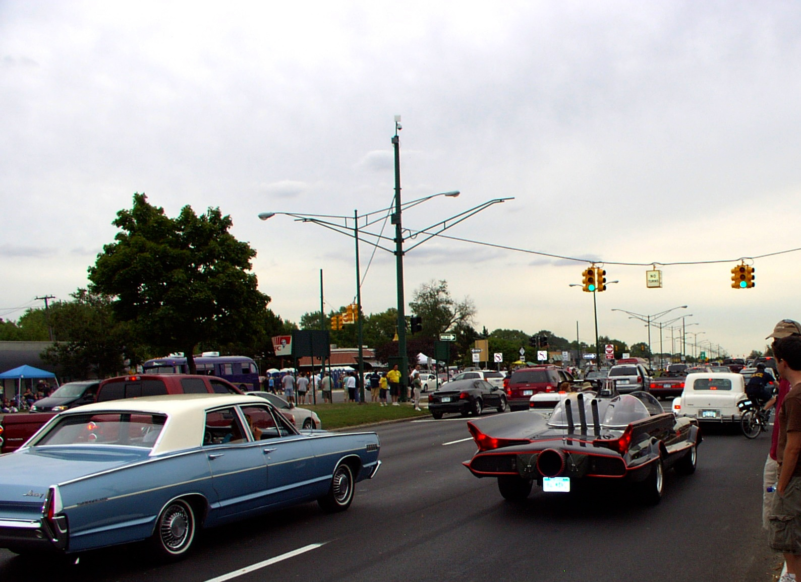 M-1 (Woodward Avenue) and Lincoln Street in Birmingham, Michigan during the Woodward Dream Cruise showing a replica Batmobile